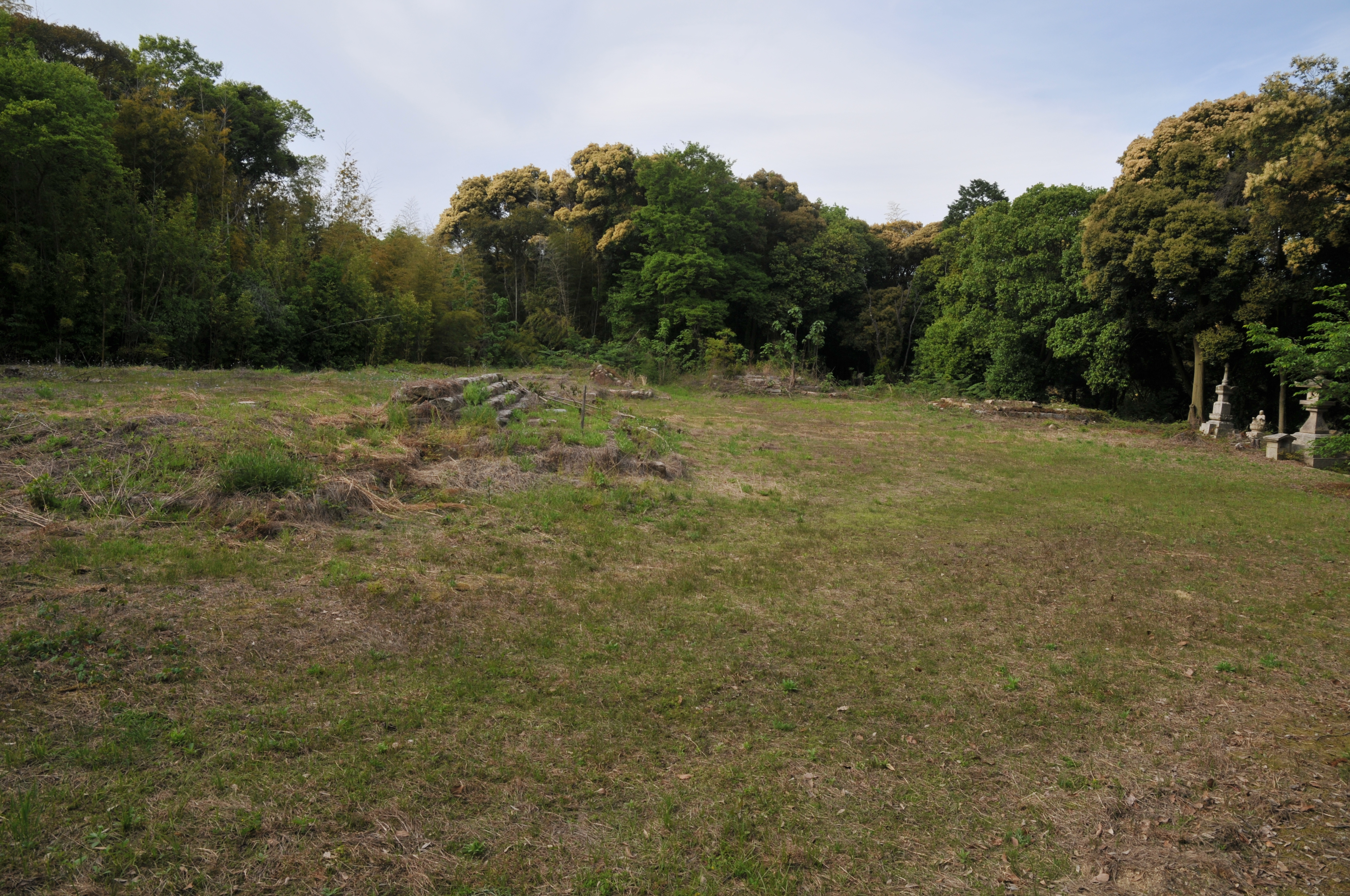 Ruins of Kōbō-ji temple